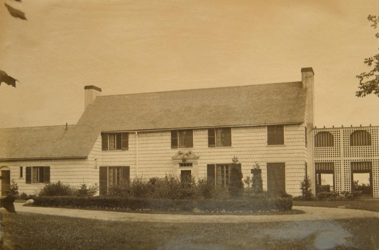 A photograph of the Jessie Sykes Beardsley house in Freedom Township, Ohio, built 1918, Robert Seyfarth, architect